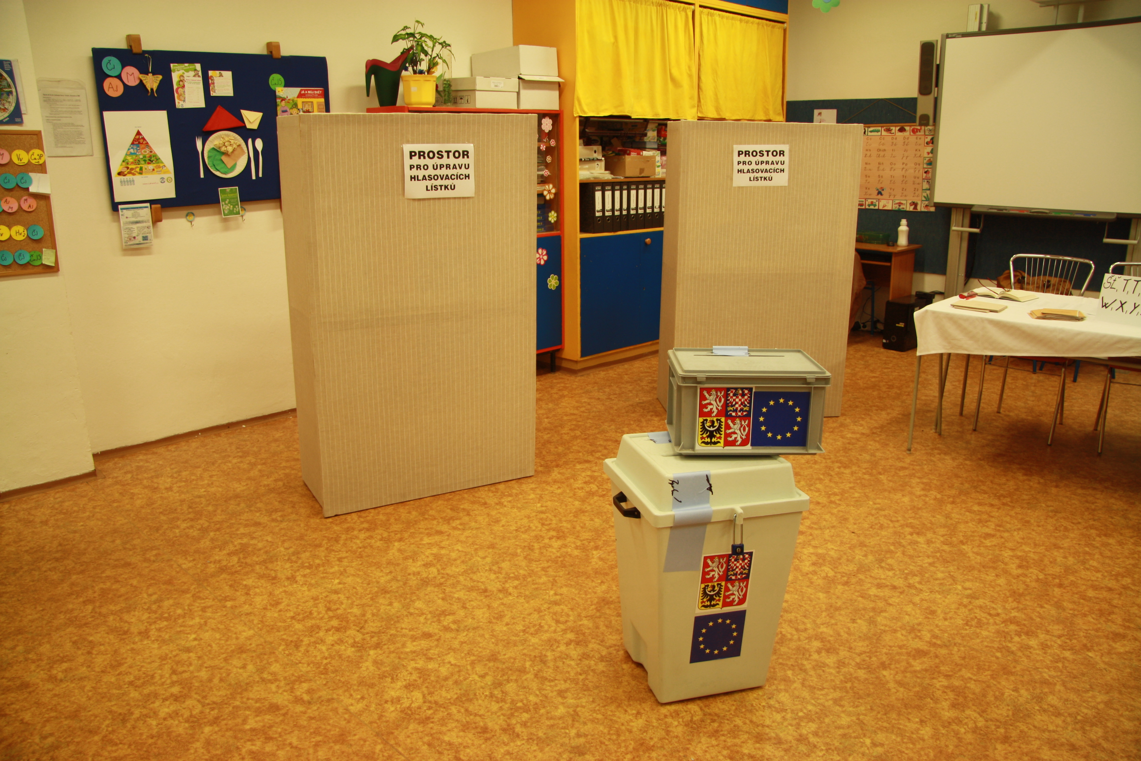 Polling Room of European election May 2014 in Třebíč.